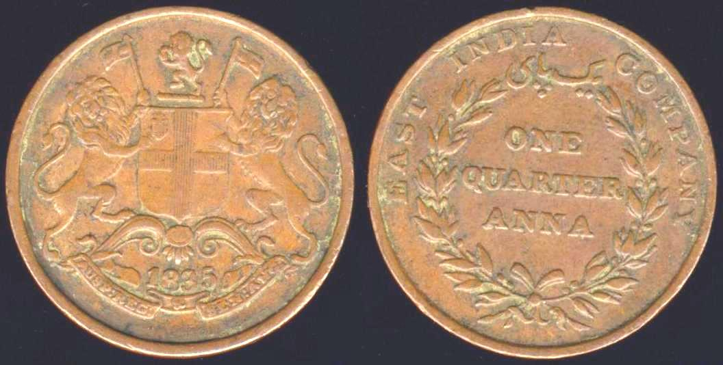 British East India Company, Quarter Anna (copper) minted in 1835 obverse: coat of arms of the British East India Company reverse: denomination in English and Farsi self scanned by Jungpionier